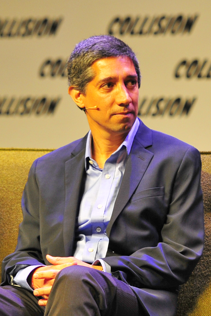 Babak Hodjat at the Collision Conference (April 2017)